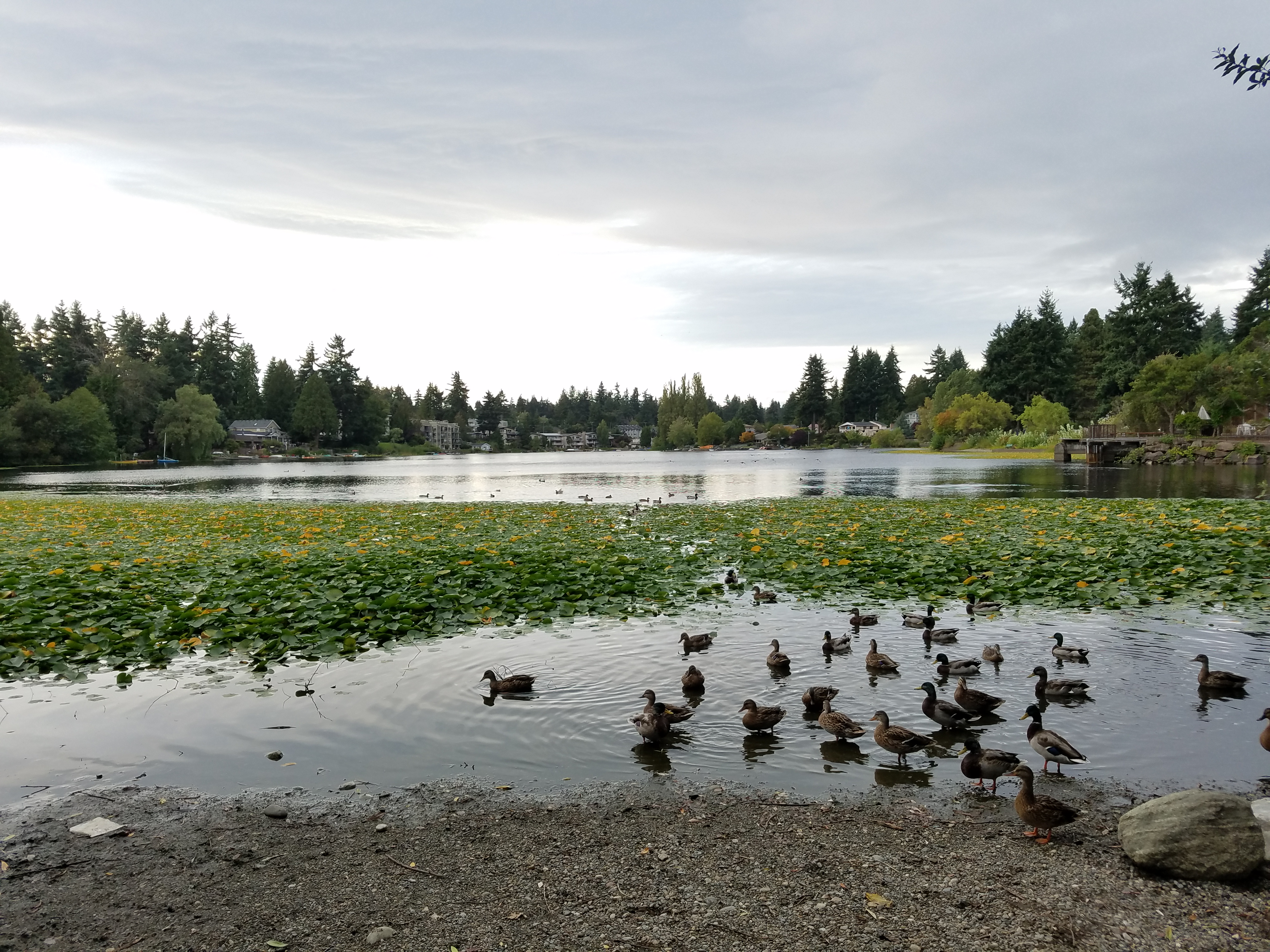 View of Bitter Lake in north Seattle, WA with houses in the surrounding eponymous neighborhood shown along the shores of the lake. Mallard ducks and water lilies visible.